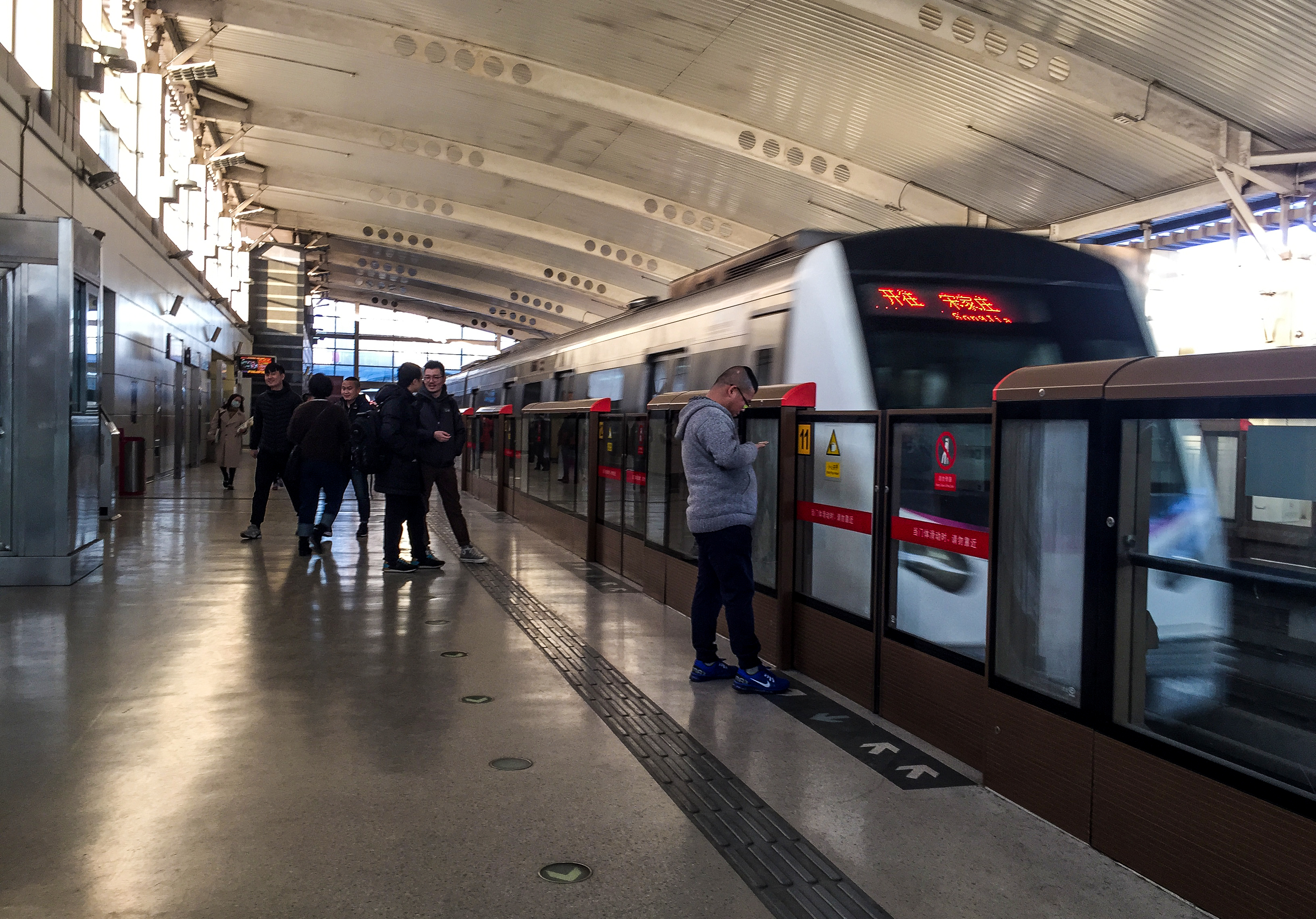 Coincidentally No 1.